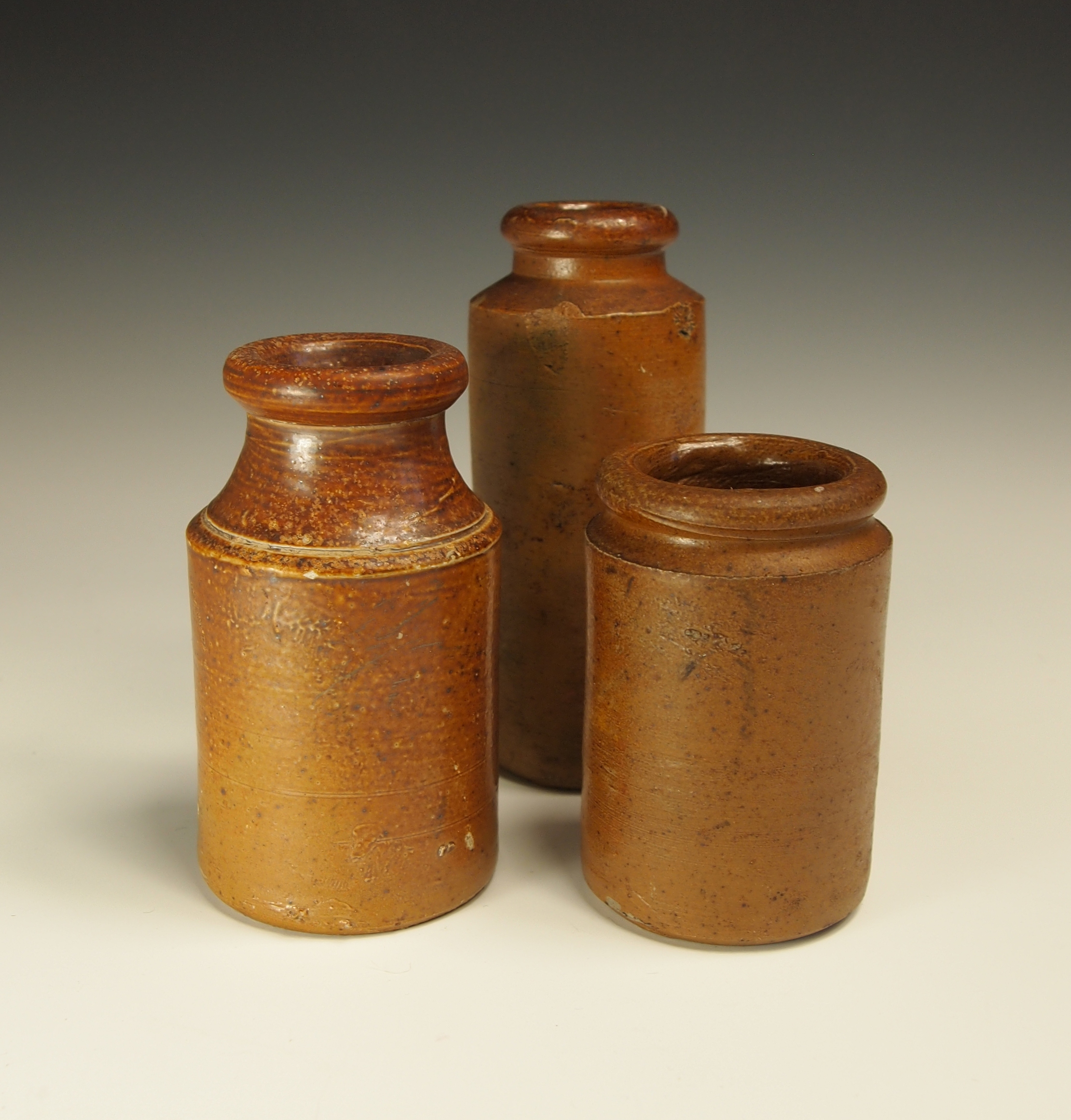 Salt glazed utilitarian containers